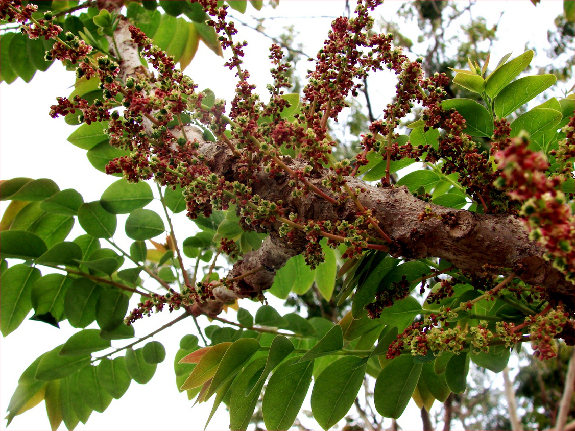 Phyllanthus acidus Malay gooseberry, Otaheite gooseberry. This picture was taken in garden in Brisbane